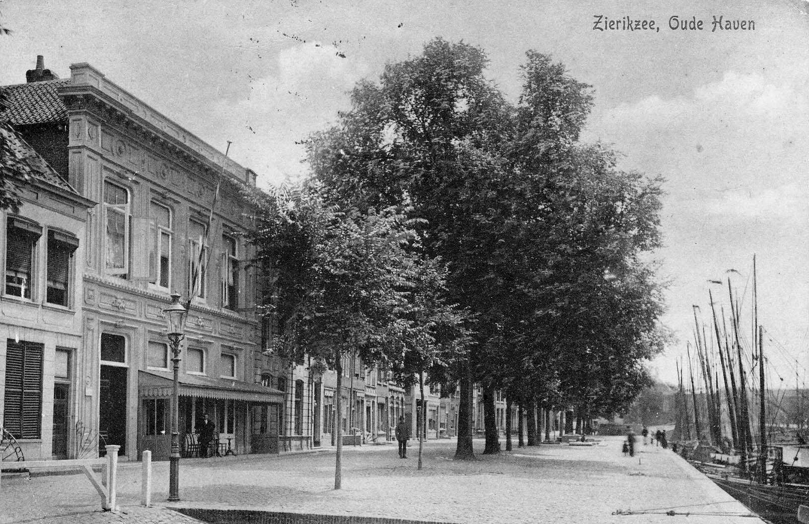 Postcard of de Oude Haven in Zierikzee around 1915